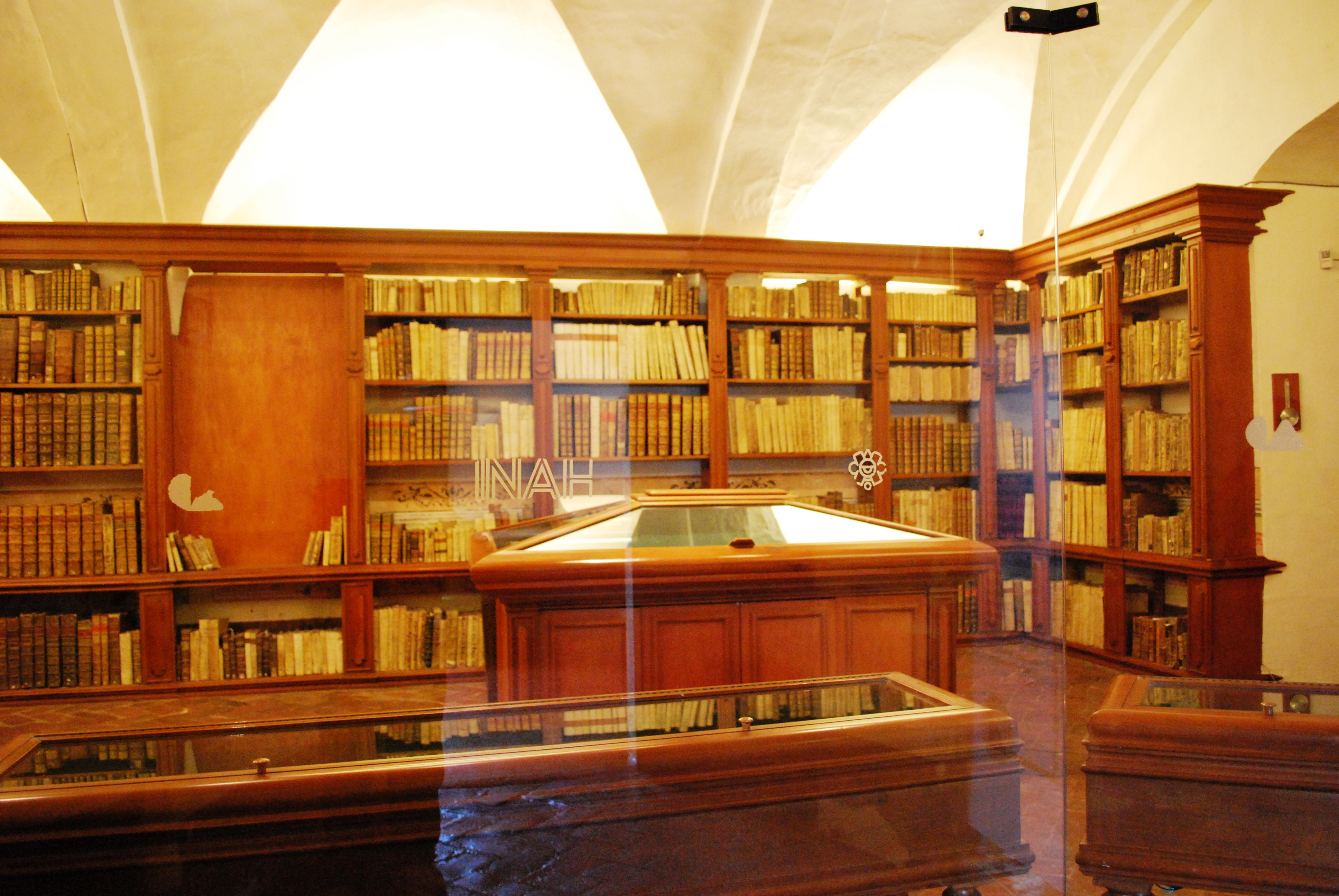 Library of the Jesuit College now part of the Museo Nacional del Virreinato in Tepotzotlan, Mexico State